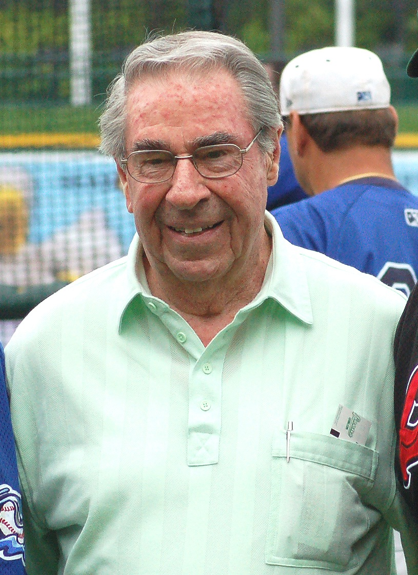 This was taken at a Great Lakes Loons game last year between the Loons and the West Michigan Whitecaps. Lance Parrish coached the Loons and Brookens coached the Whitecaps. Paul Carey stopped by to see the game. All three were part of the 1984 World Series Detroit Tigers. Paul Carey was the announcer. View Large On Black ?